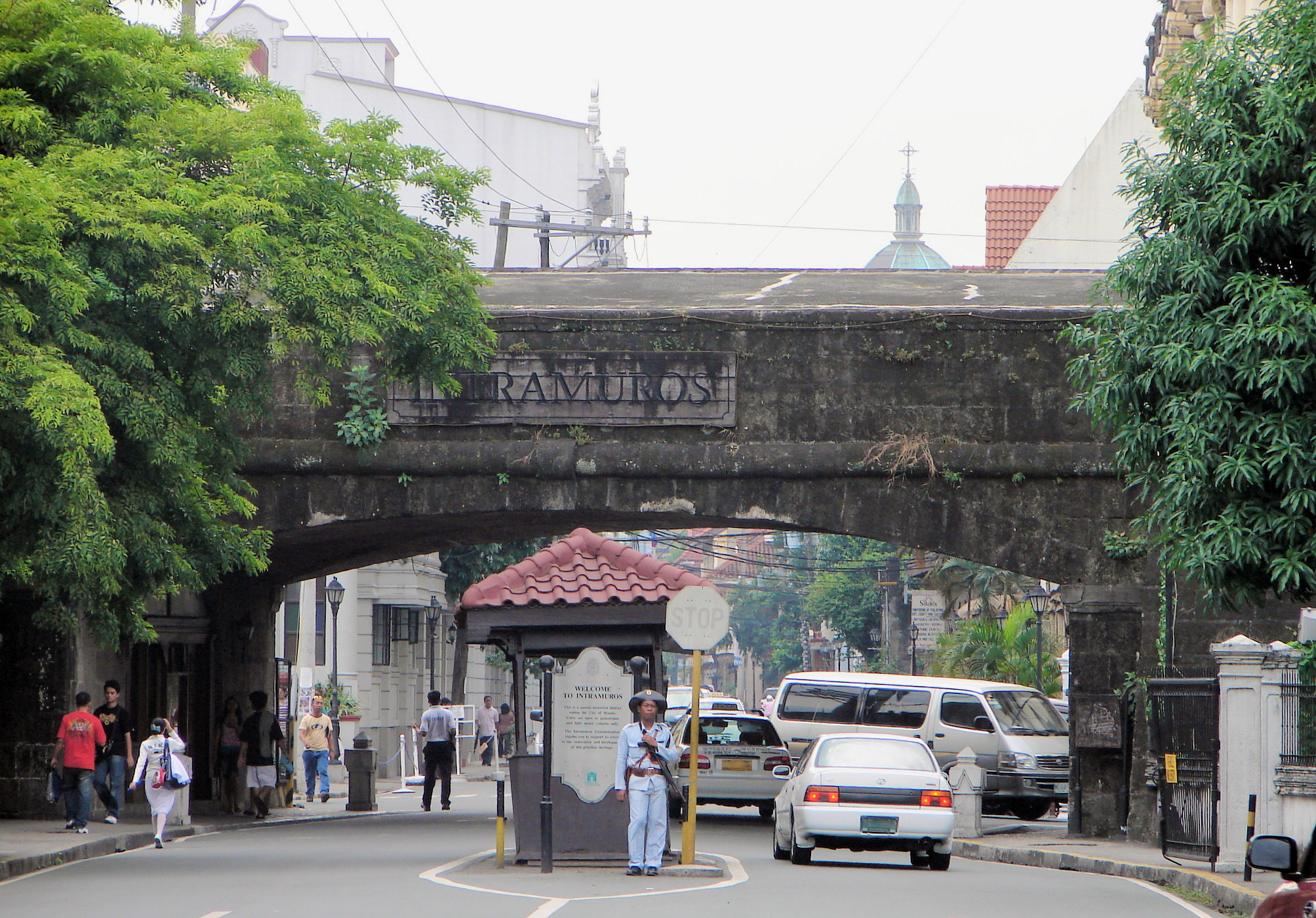 Entry gate to Intramuros, Manila, the Philippines